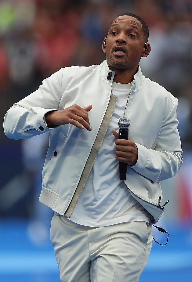 Will Smith at the close of the 2018 Soccer World Cup